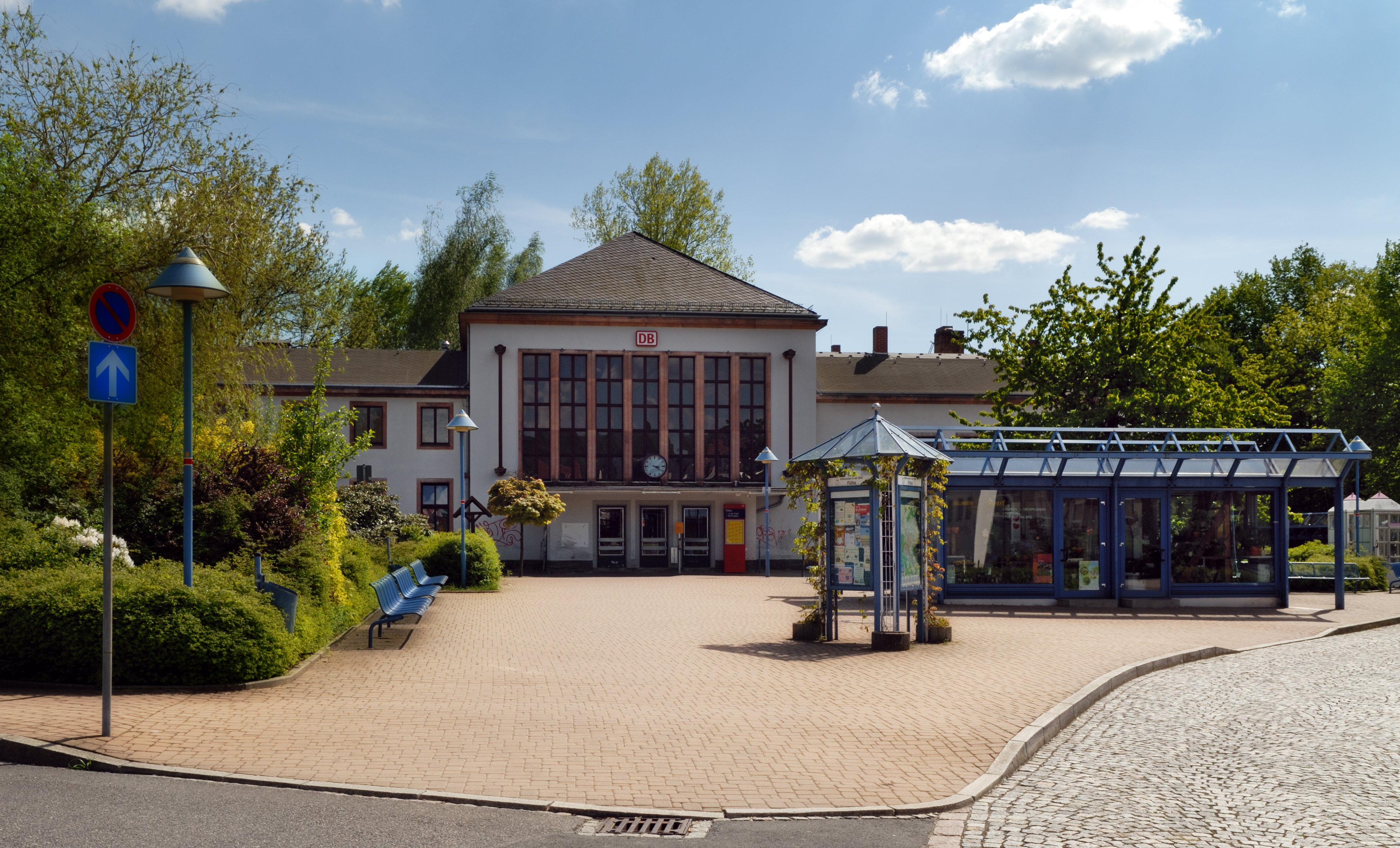 This image shows the train station in Flöha, Germany.